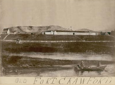 A photograph of a painting of the second Fort Crawford in Wisconsin ca 1840.